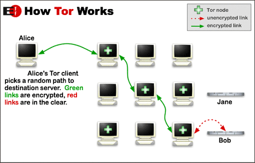 How Tor (The Onion Network) works